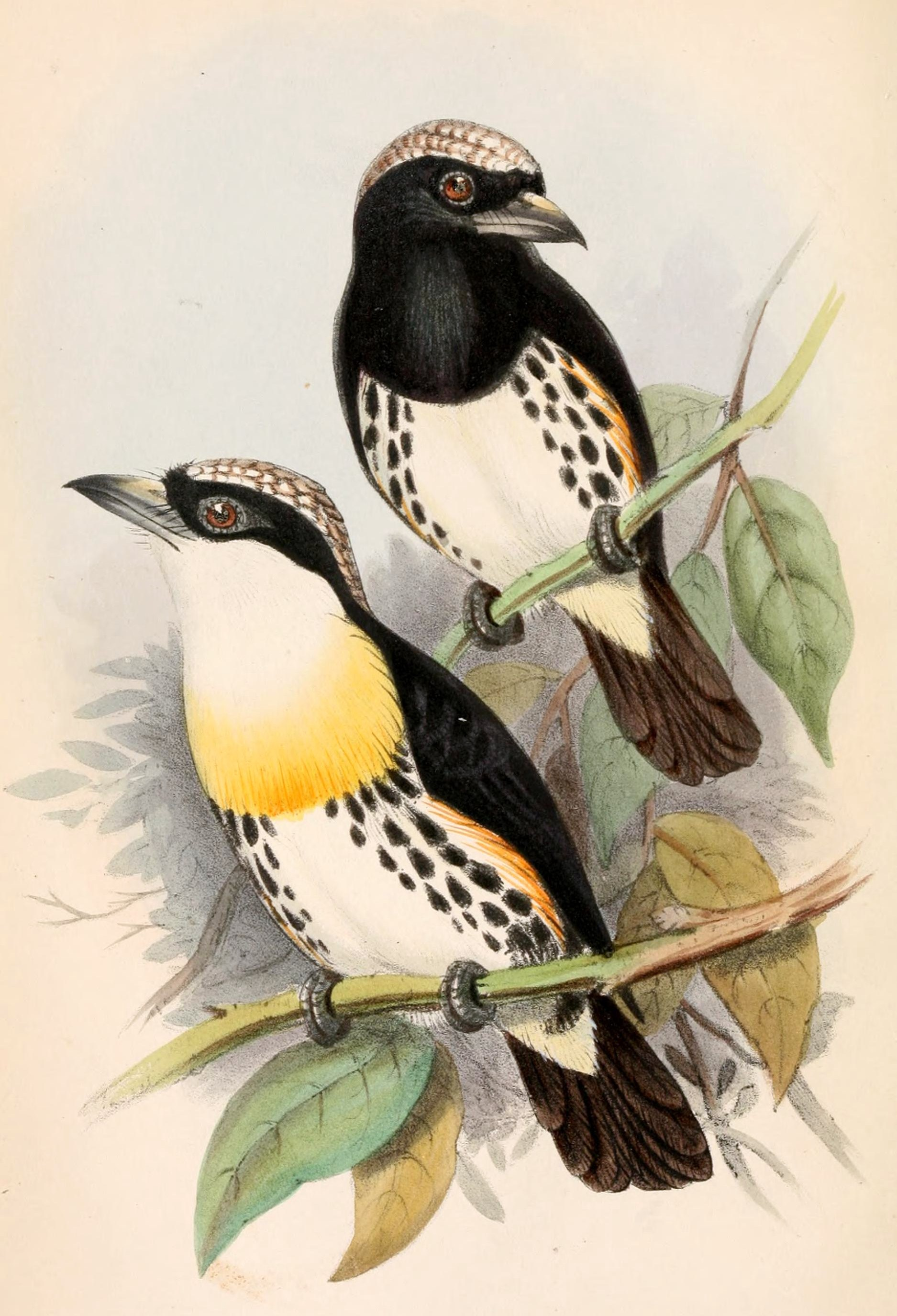 « Capito maculicoronatus » = Capito maculicoronatus maculicoronatus (Subspecies of Spot-crowned Barbet)